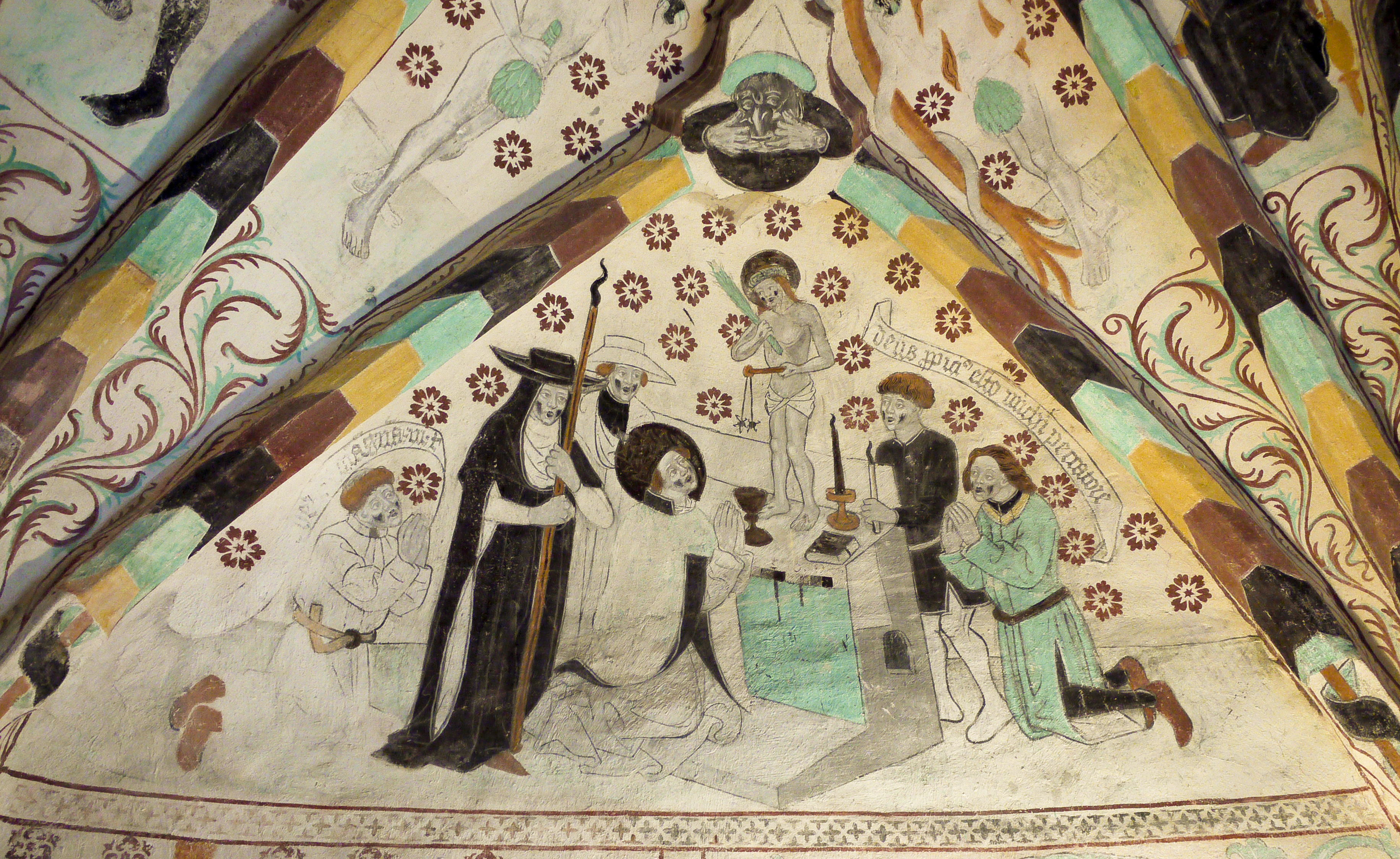 Härkeberga kyrka/church. Diocese of Uppsala, Enköping, Sweden. Medieval paintings by Albertus Pictor.